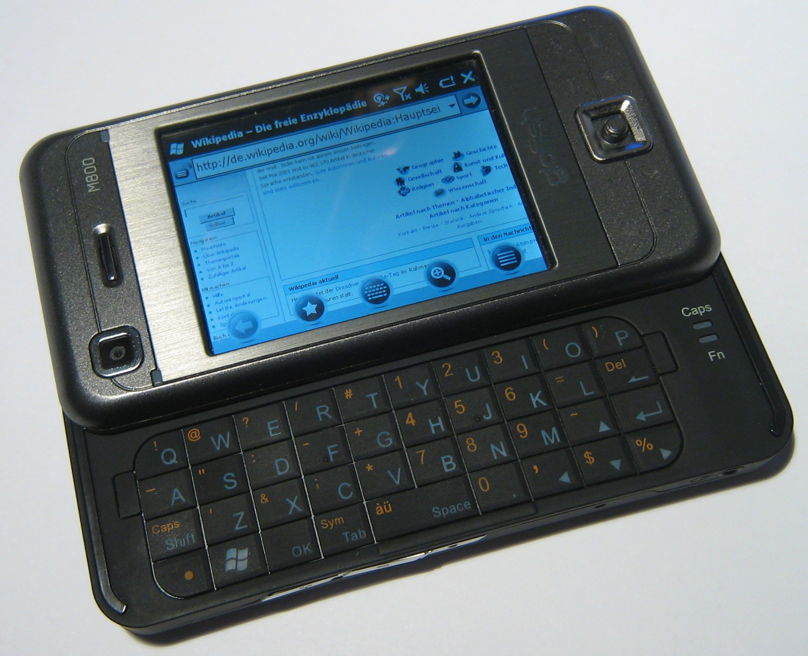 Eten glofiish M800, flashed with Windows Mobile 6.5; Internet Explorer Mobile 6 is showing the German Wikipedia's Main Page